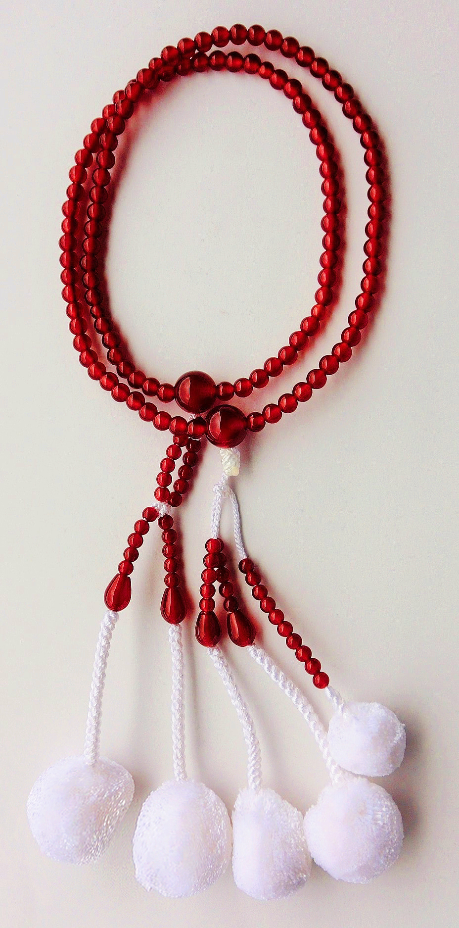 Religious beads made with garnet gemstones. Used in Nichiren Shoshu religion. Format is permitted by the sect.